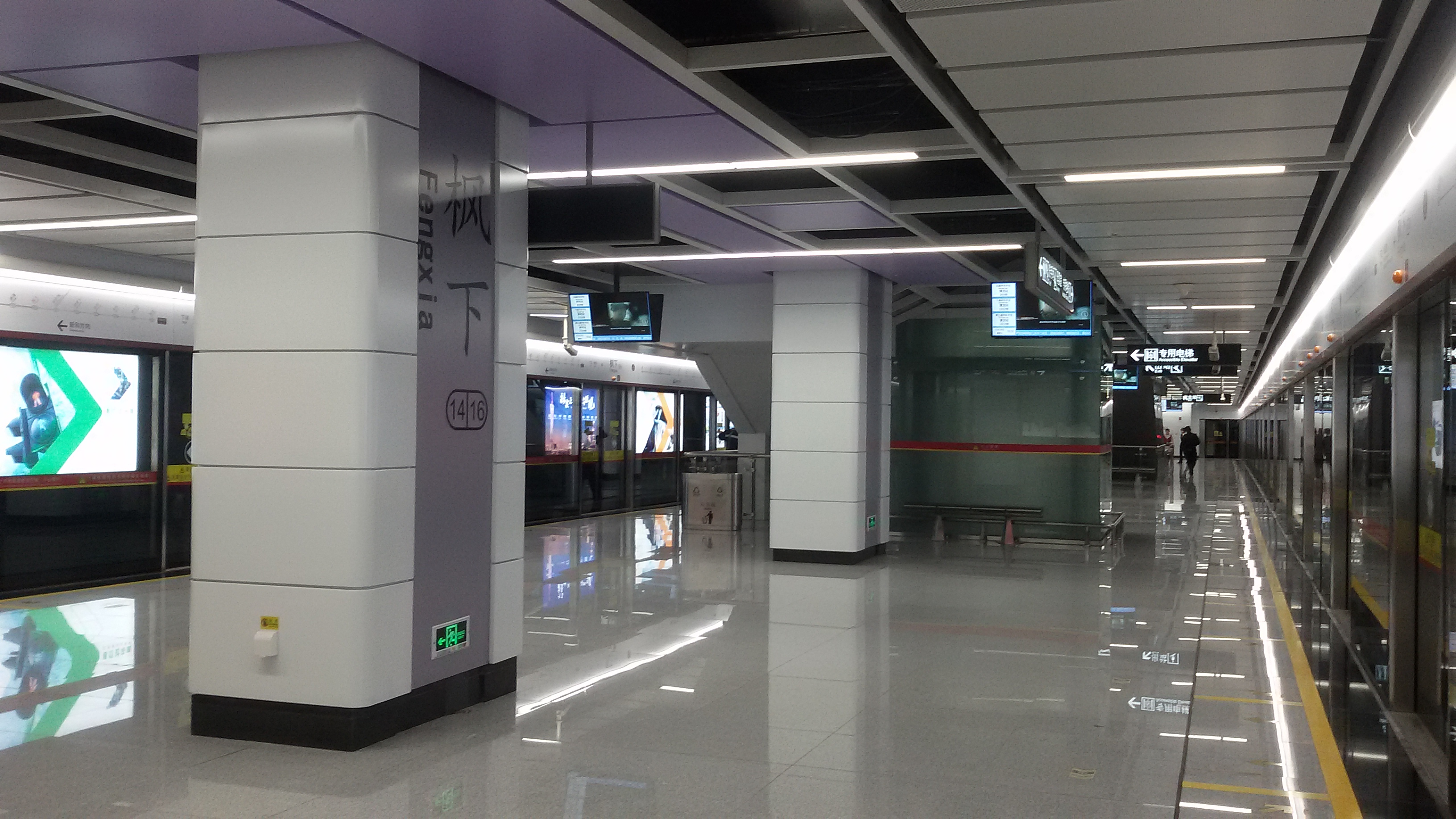 Station Platform for Fengxia Station in Guangzhou Metro.